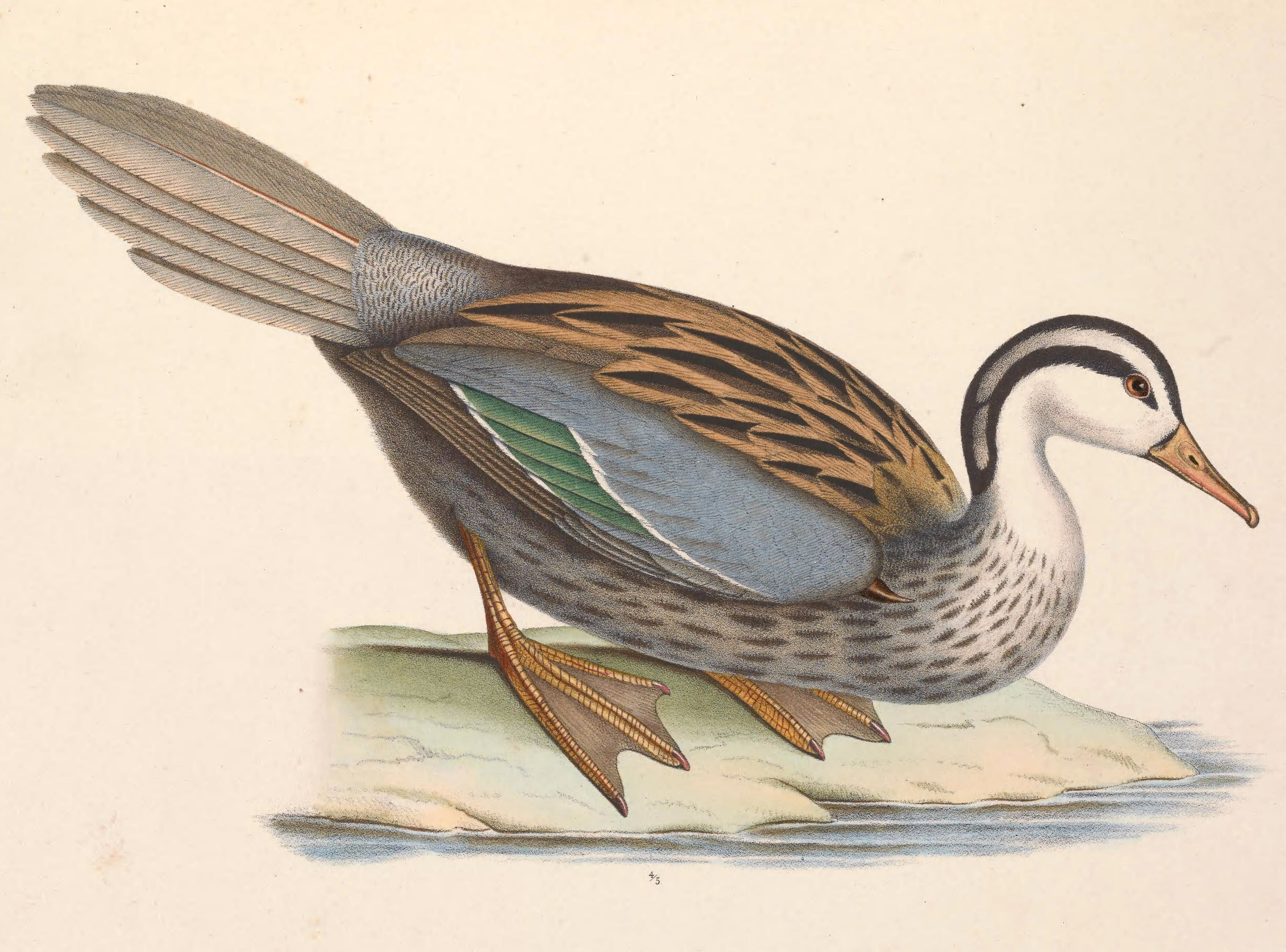 Merganetta colombiana = Merganetta armata colombiana (Subspecies of Torrent Duck) - male